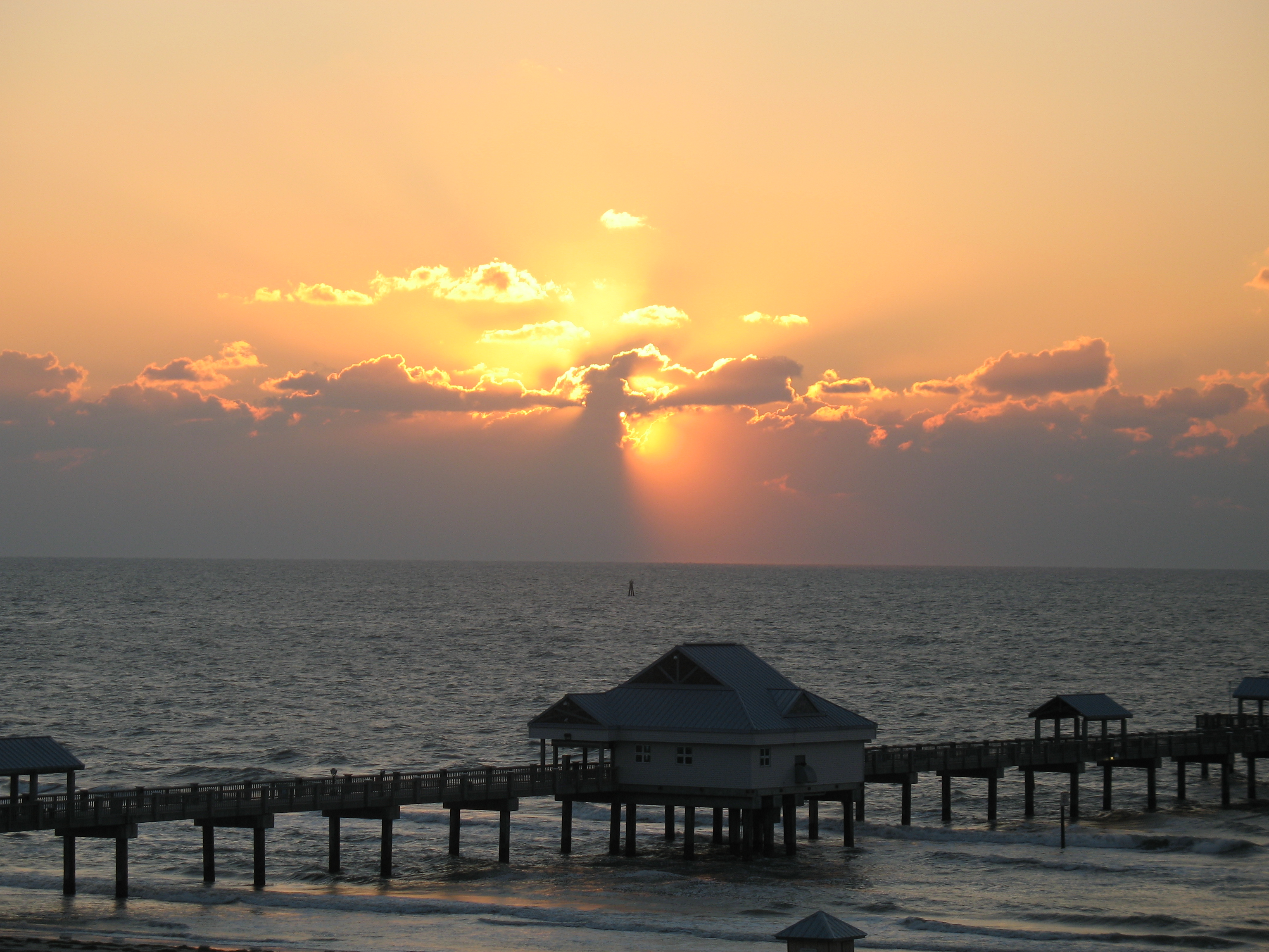 Clearwater Beach Sunset From Hilton Hotel